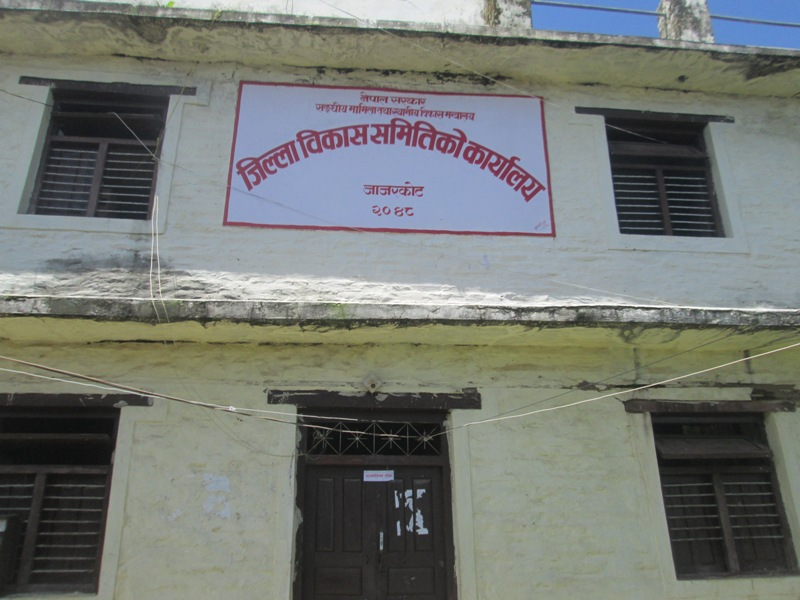 जिल्ला विकास समितिको कार्यालय जाजरकोट